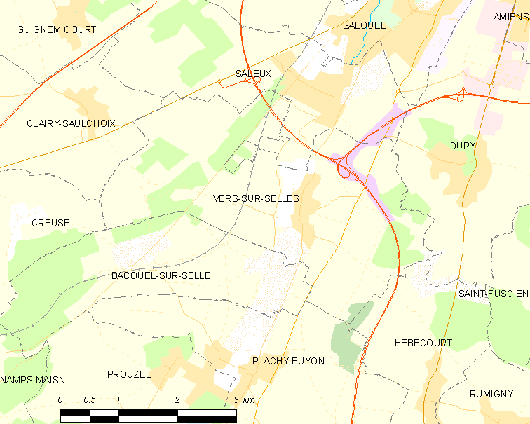 Map of French municipality Vers-sur-Selles